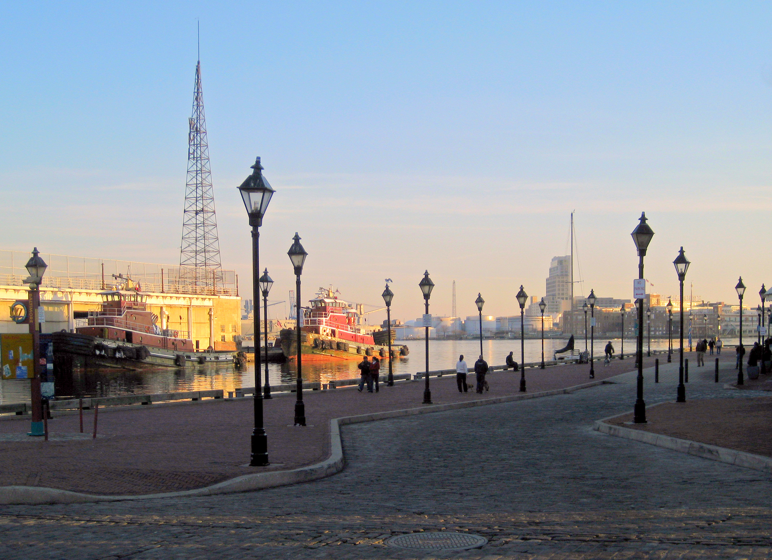 Fell's Point waterfront, retouched